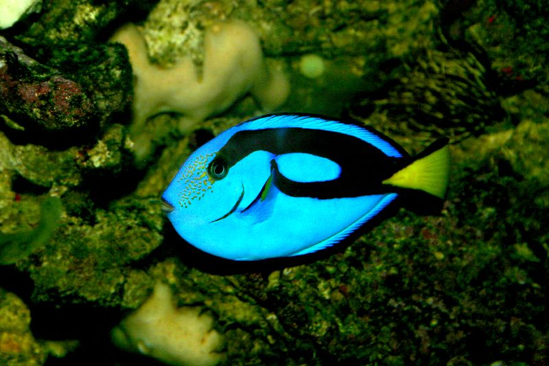 Same Fish as the one in Finding Nemo! (Surgeon Fish); Canon 300D Kit Lens